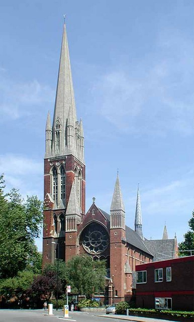 St Augustine's Church, Kilburn Park Road, London NW6, near to Paddington, Westminster, Great Britain.